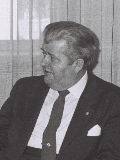 DANISH FOREIGN MIN. CHRISTEN PER HAEKKERUP CALLING ON KNESSET SPEAKER KADISH LUZ, IN JERUSALEM.